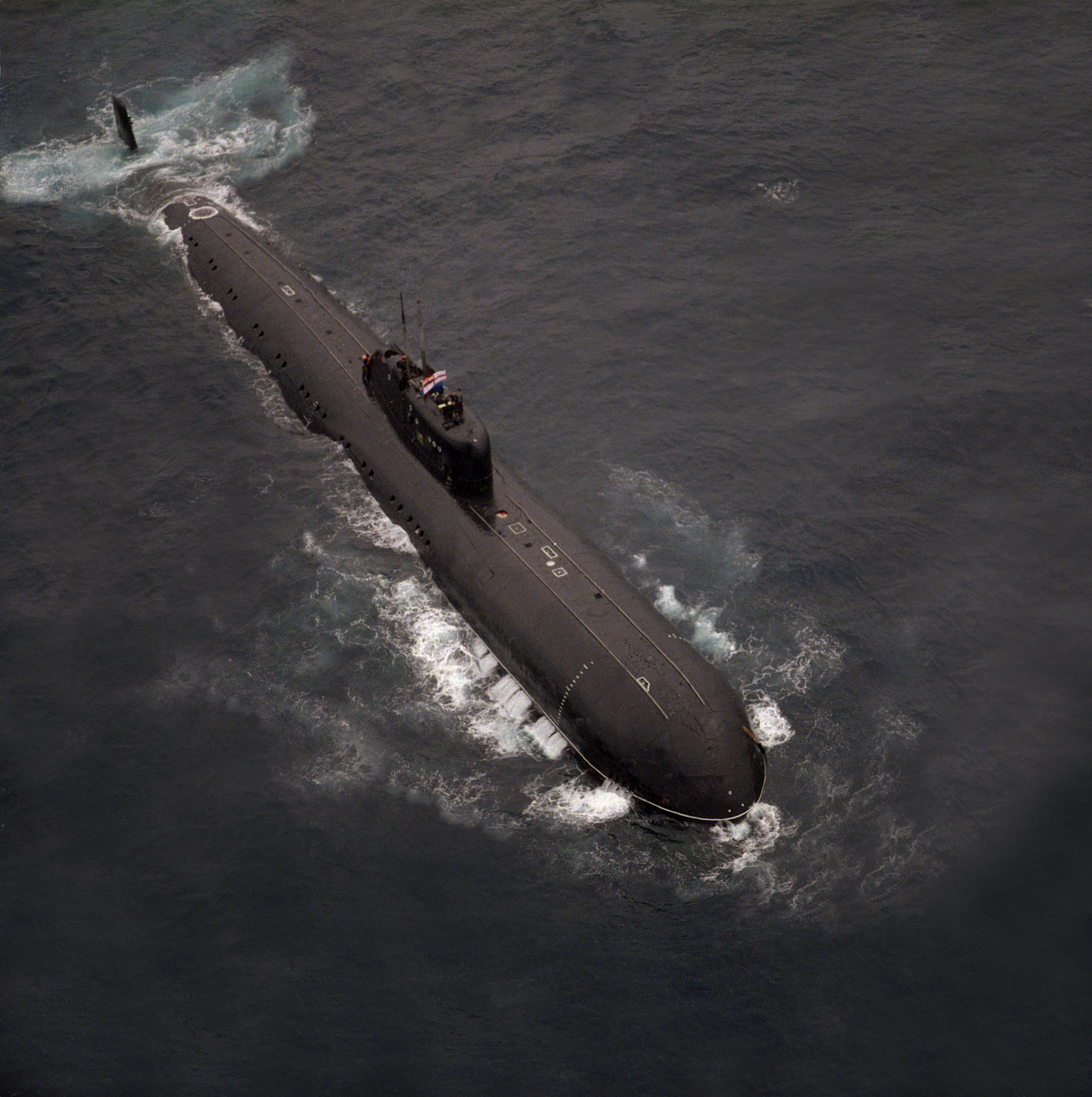 Released to Public ID: DN-SC-89-03179 Service Depicted: Other Service An aerial view of the Soviet-built Indian Charlie I class cruise missile submarine INS CHAKRA underway. Exact Date Shot Unknown